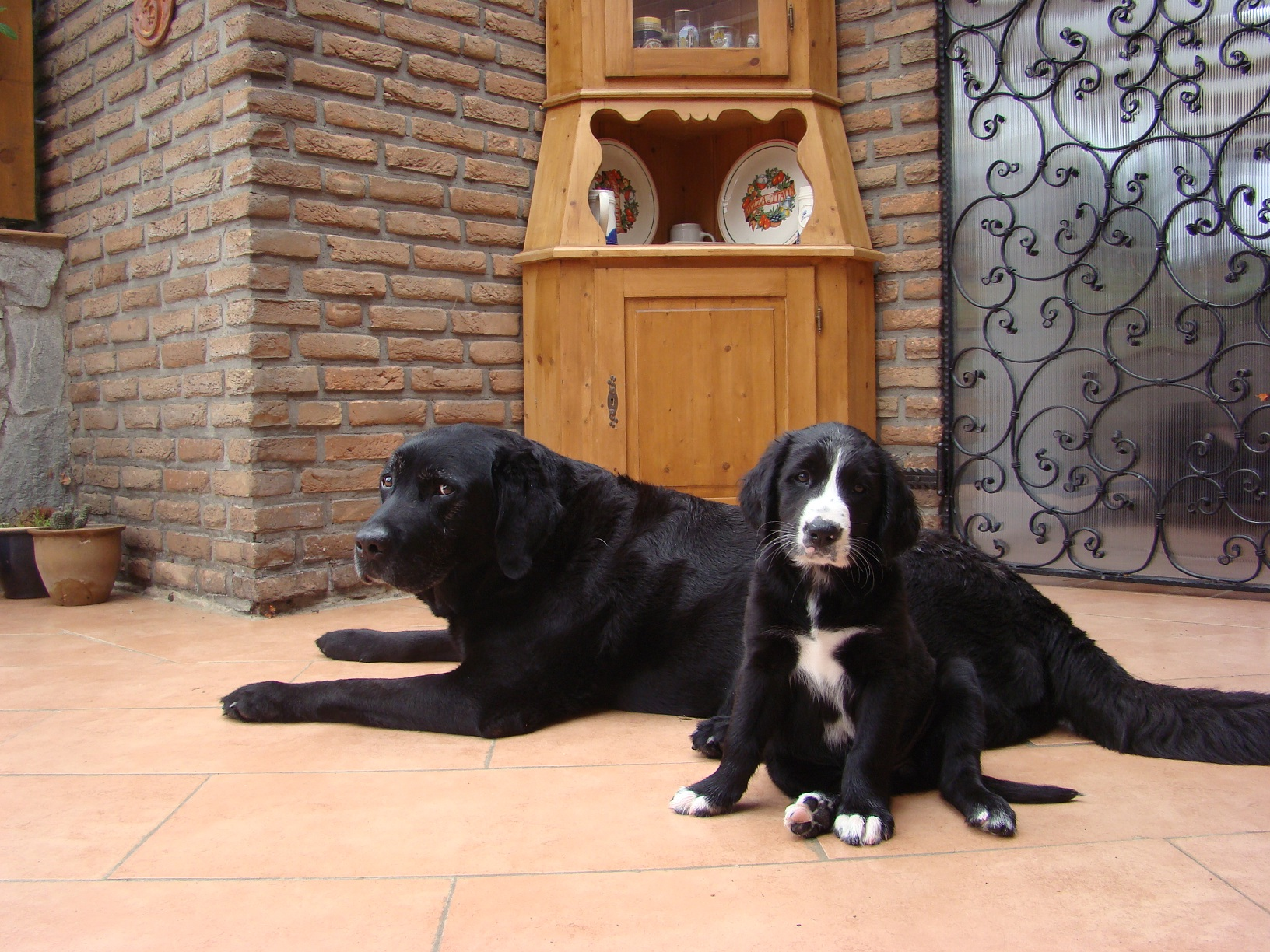 12 yrs old male labrador and 9 weeks old female labrador puppy with manifastions of St Johns Water dog.